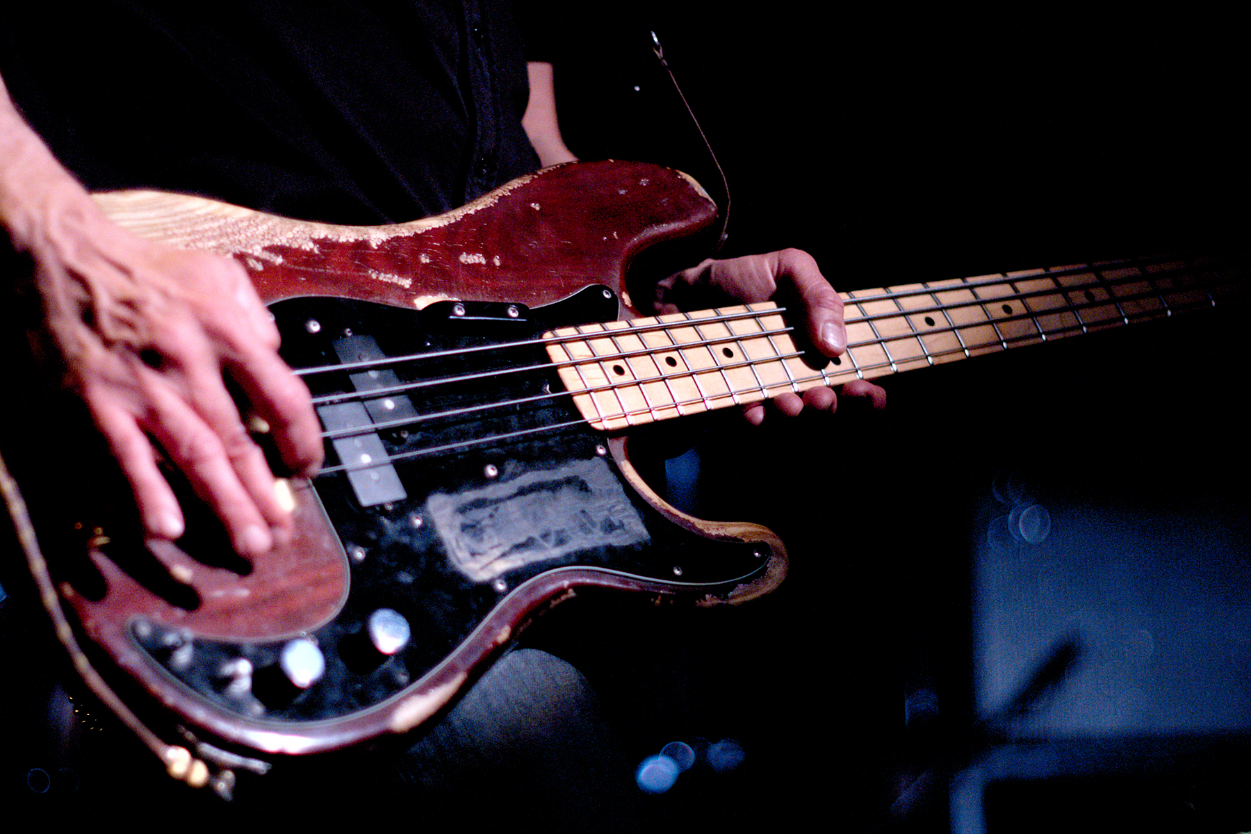 Pascal Humbert of Wovenhand